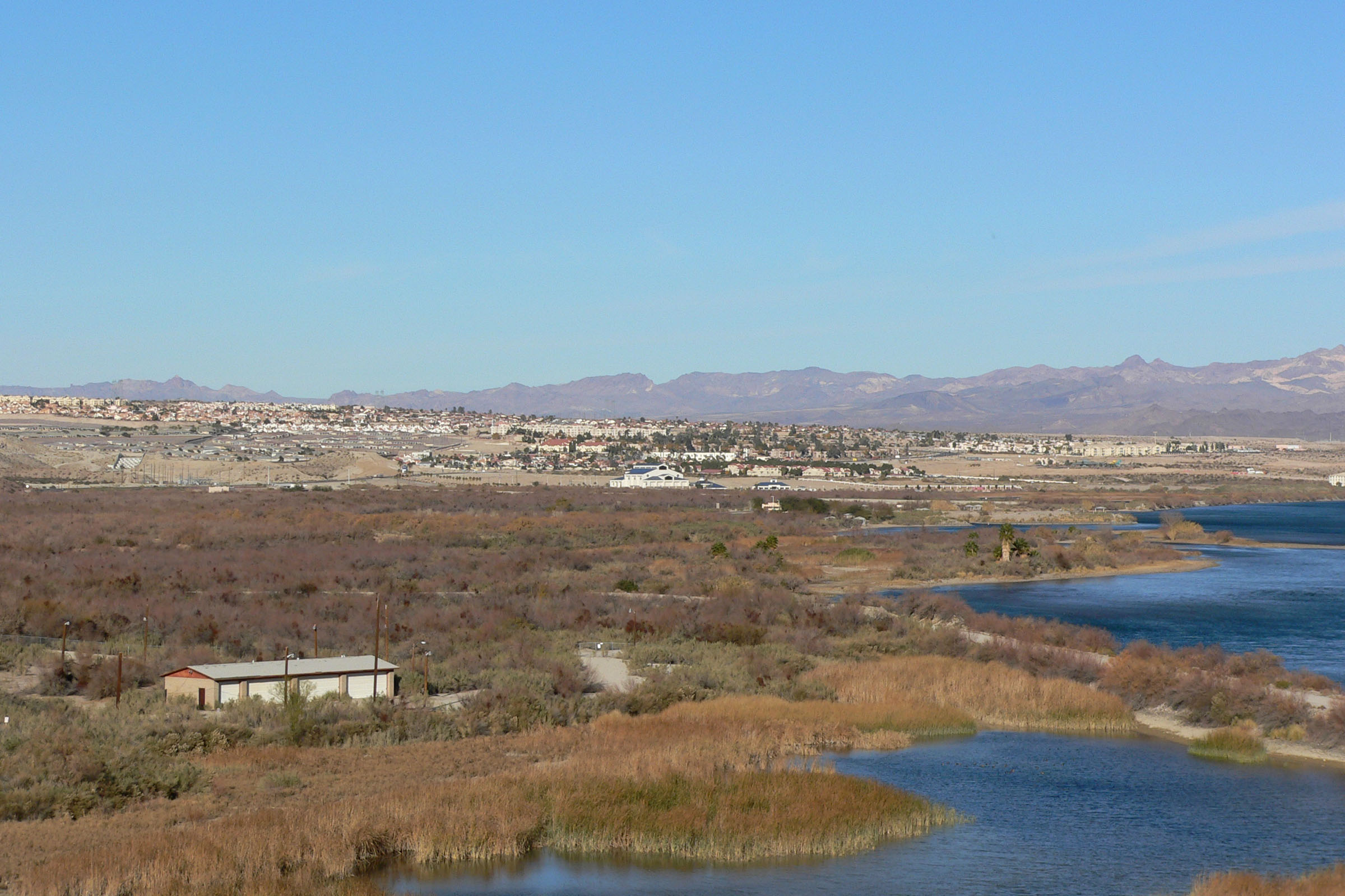 View of Laughlin, Nevada from the south, southern Nevada